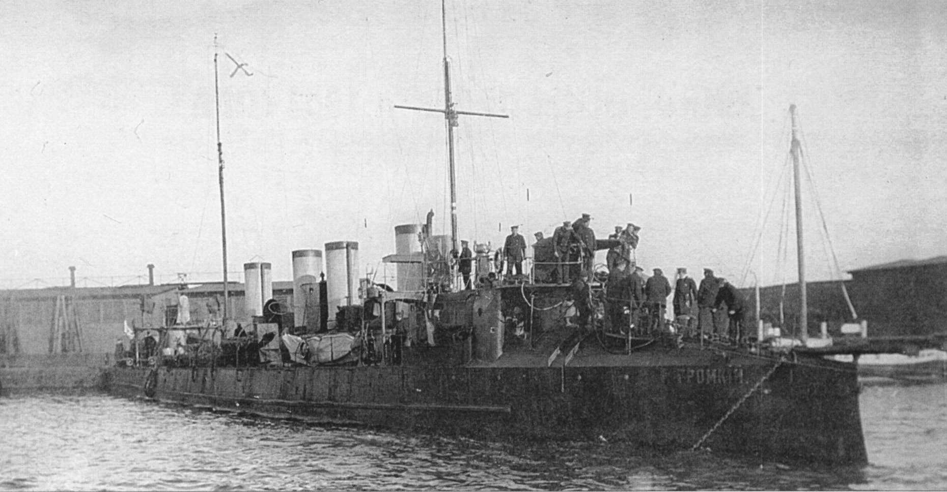 Эскадренный миноносец« Громкий»